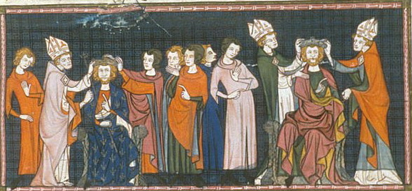 Coronation of Carloman II of France and Boso of Provence (British Library, Royal 16 G VI f. 242)